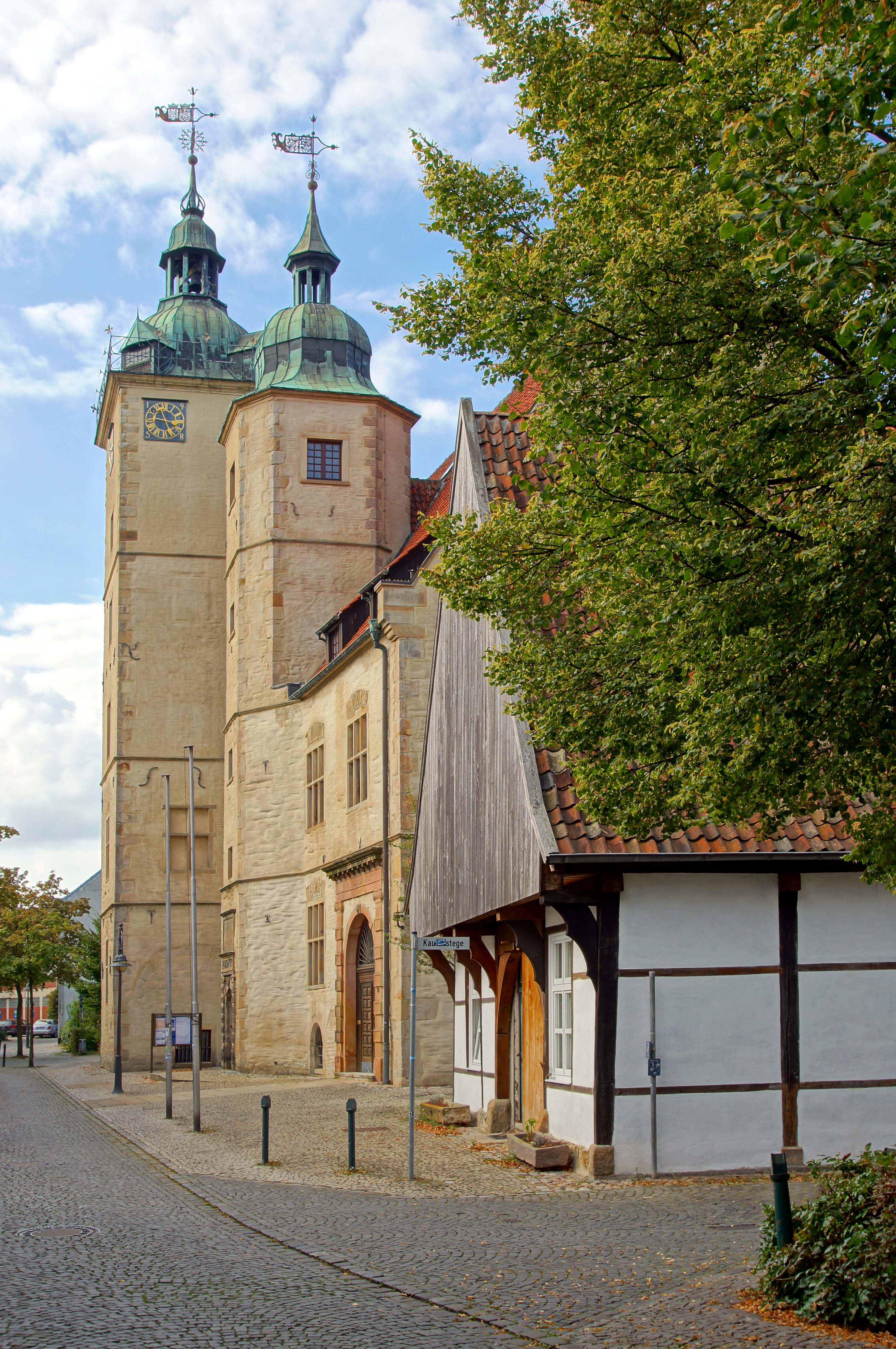 Hohe Schule ("High School") and Geisthaus in Burgsteinfurt, town and district of Steinfurt, North Rhine-Westphalia, Germany. . This image shows a heritage building in Germany, located in the North Rhine-Westphalian city Steinfurt (no. 5). This image shows a heritage building in Germany, located in the North Rhine-Westphalian city Steinfurt (no. 12).